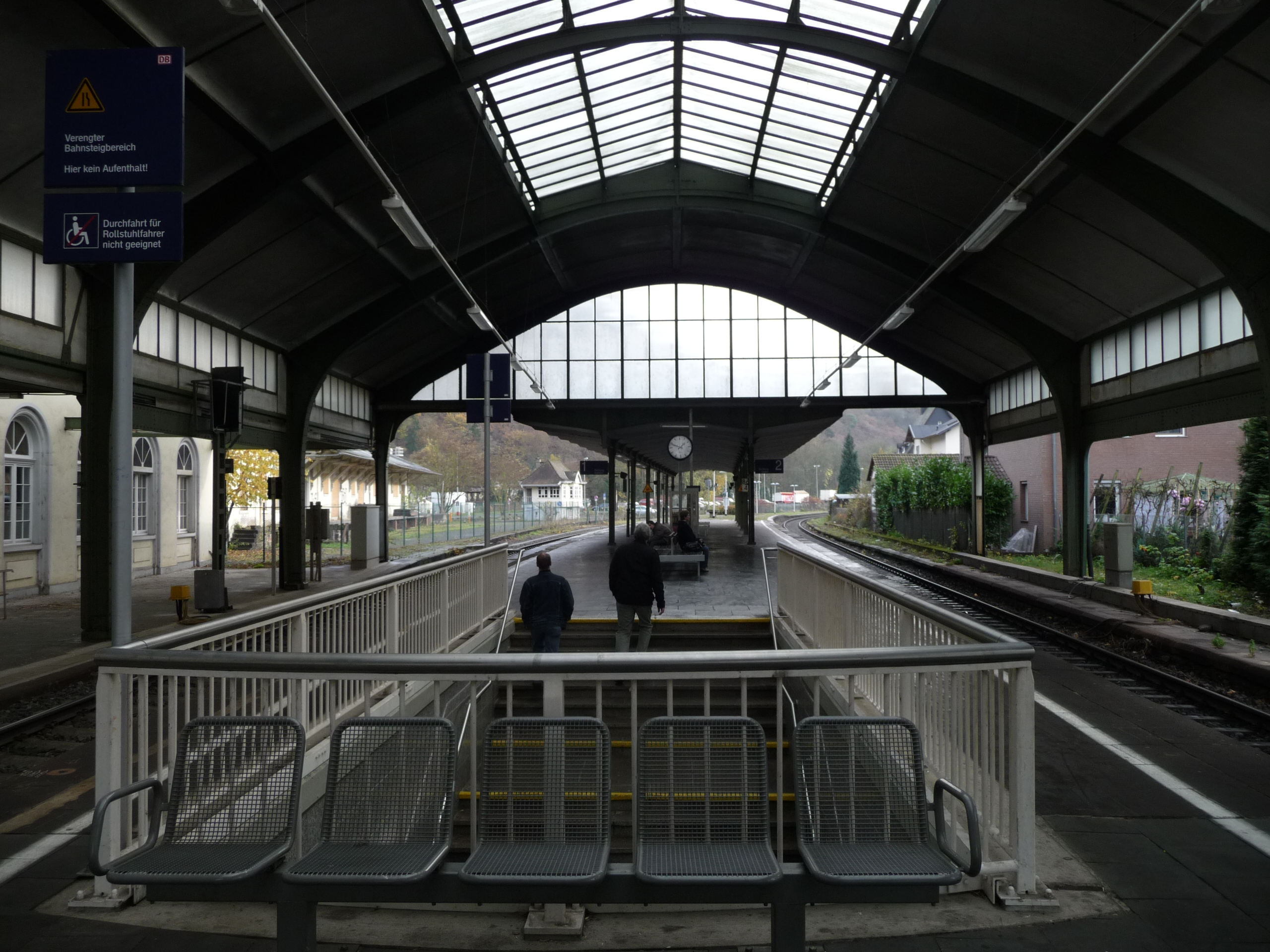 Main station in Bad Ems, Germany